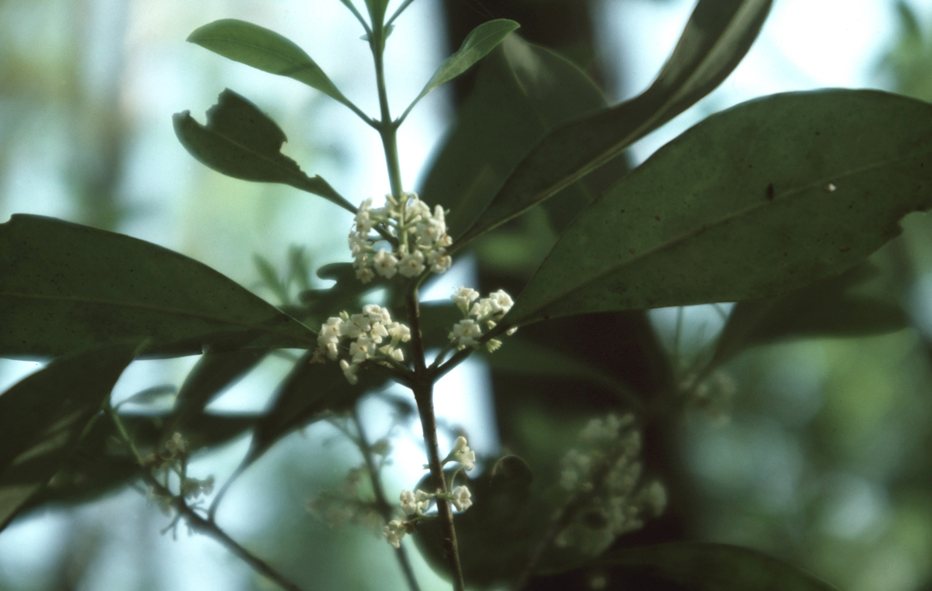 Osmanthus americanus foliage and flowers. Understory shrub in mesic woods "Troupville Woods" west of Valdosta, Lowndes County, Georgia, U.S.A.